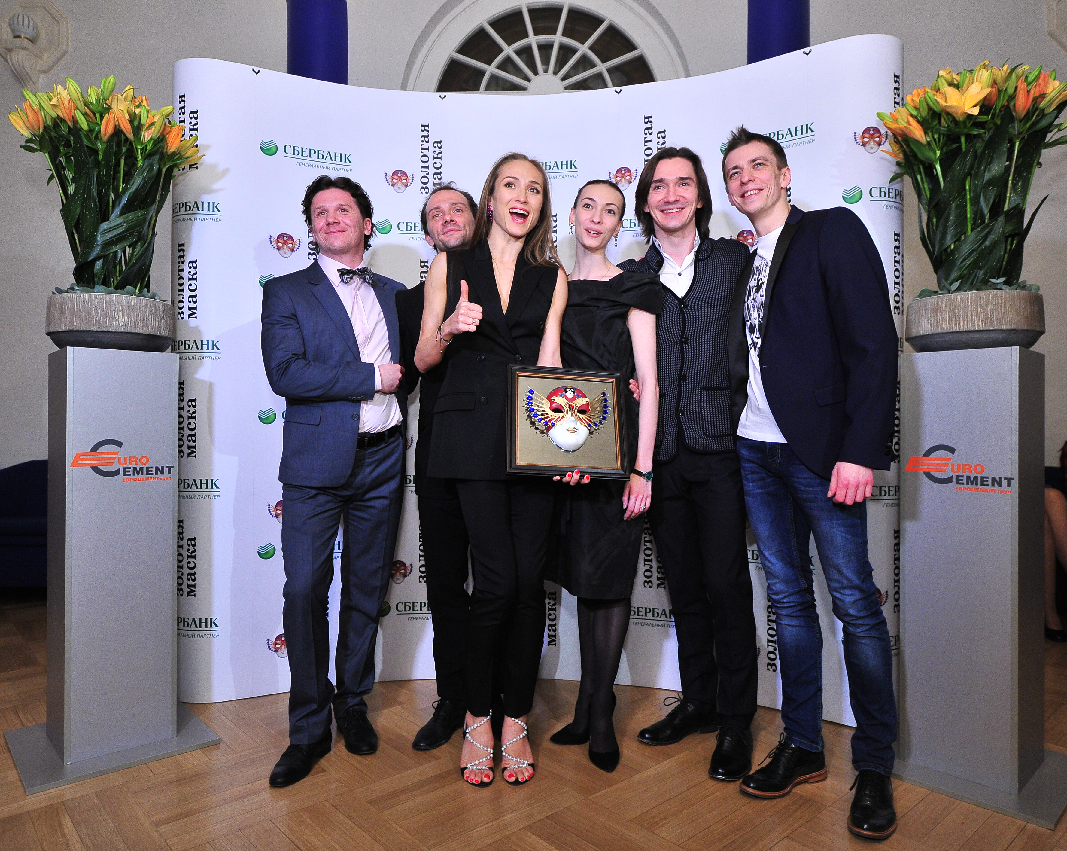 Golden Mask Award